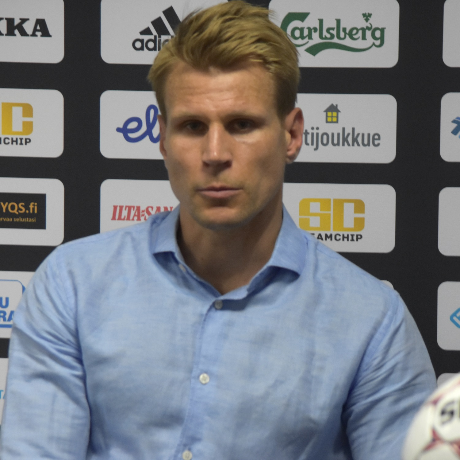 Association football coach Toni Koskela (RoPS)